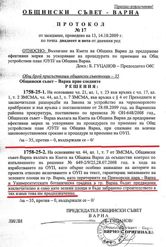 Protokol 17